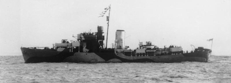 HMS Stonecrop under way